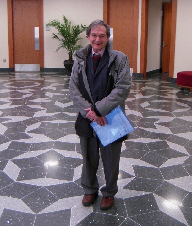 Roger Penrose in the foyer of the Mitchell Institute Building at Texas A&M University